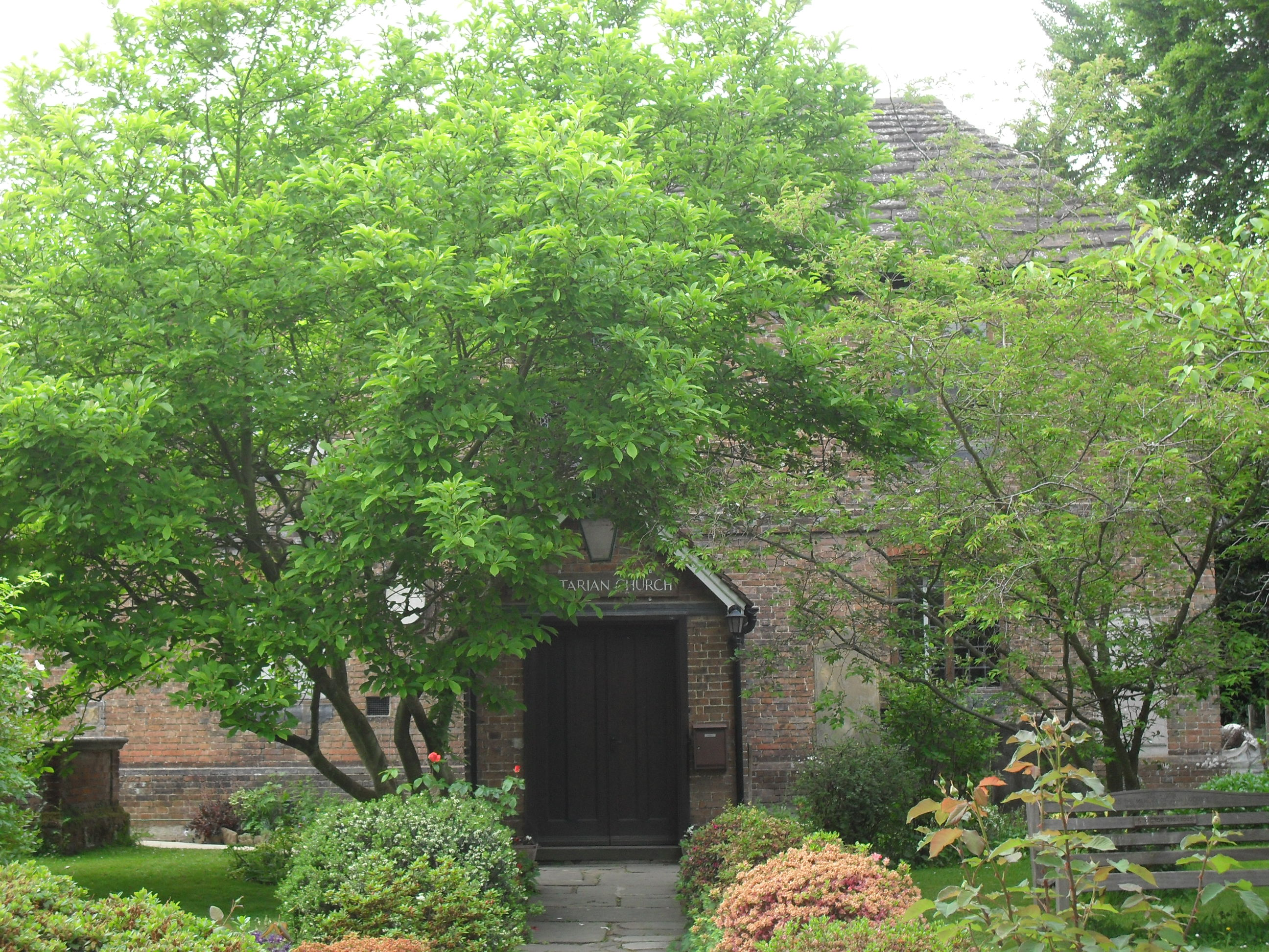 Horsham Unitarian Church, Worthing Road, Horsham, West Sussex, England. Built between 1720 and 1721. Listed at Grade II by English Heritage (NHLE Code 1192127)